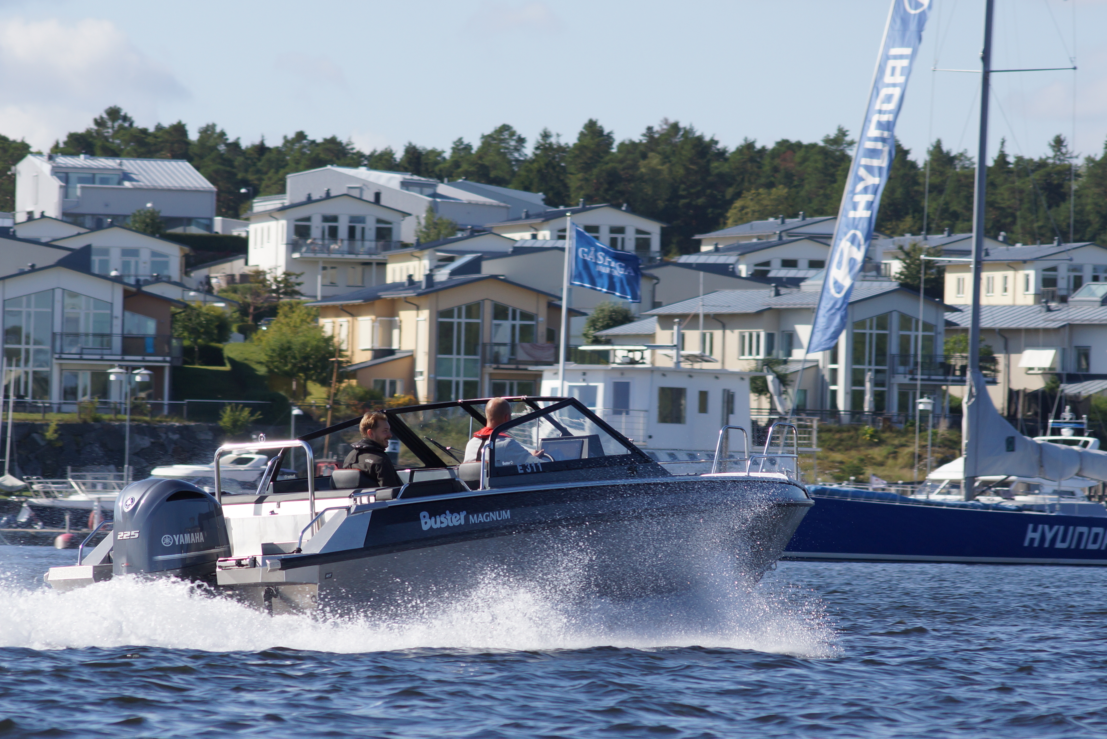 Buster Magnum aluminium boat manufactured by Inha Works, part of Yamaha Motor, and Yamaha F225 outboard motor in Lidingö, near Stockholm, Sweden, September 2017.